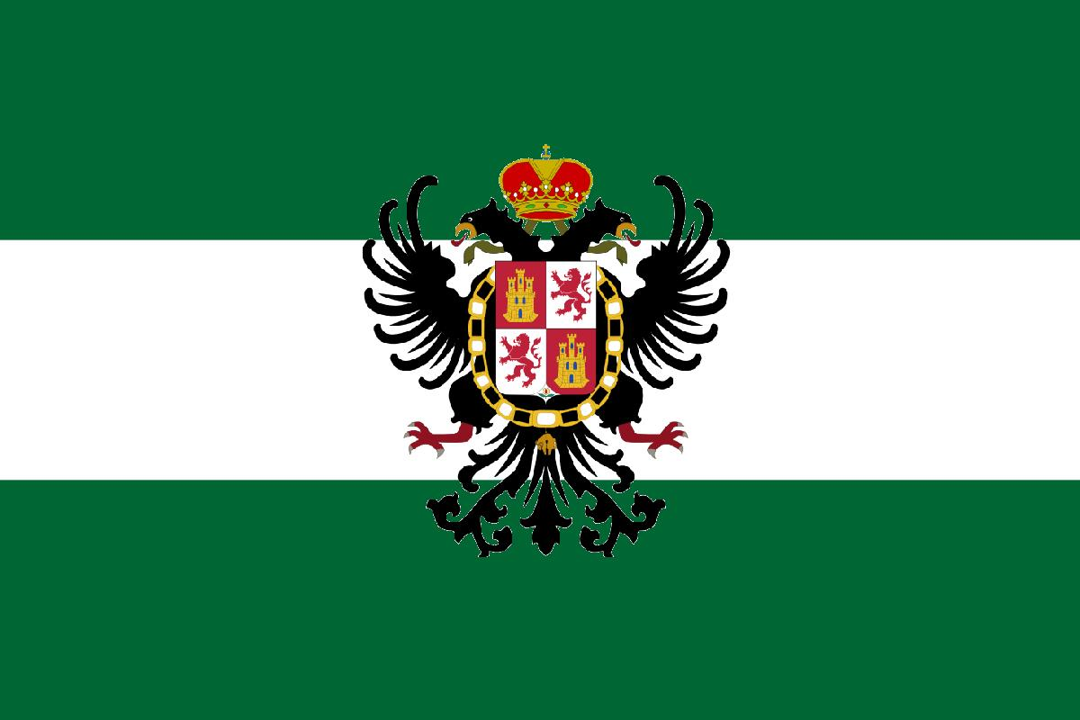 Heraldry of the city of Tunja D.H.C. Capital of Boyacá, gifted by King Philip II of Castile, based on the shield of sixteenth-century Iberian Capital, Toledo. The flag was granted by the Queen of Spain Juana "la Loca" from the standard of Andalusia.